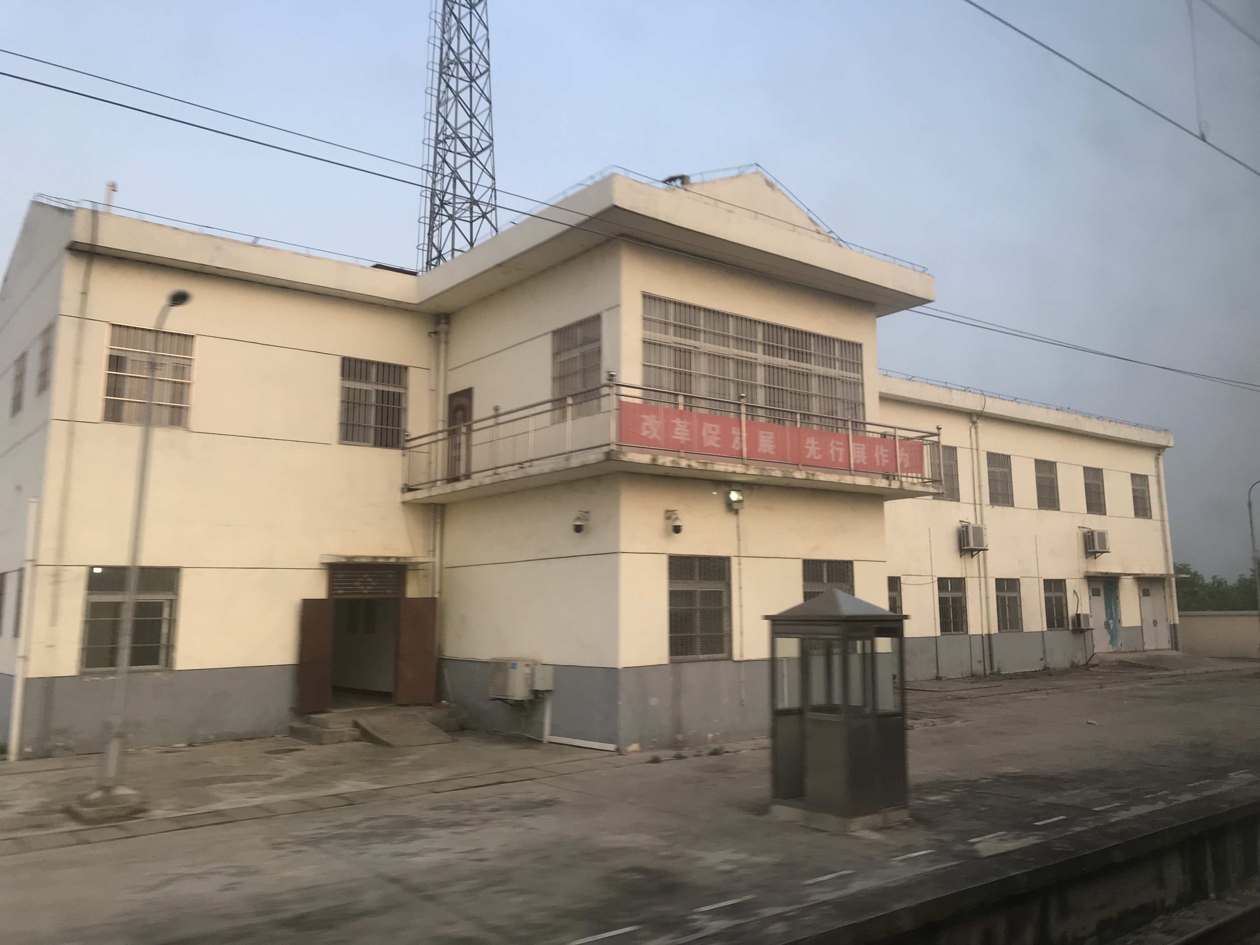 201906 Station Building of Ezhoubei